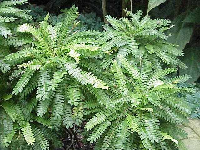 Species: Biophytum sensitivum Family: ' Image No. 1